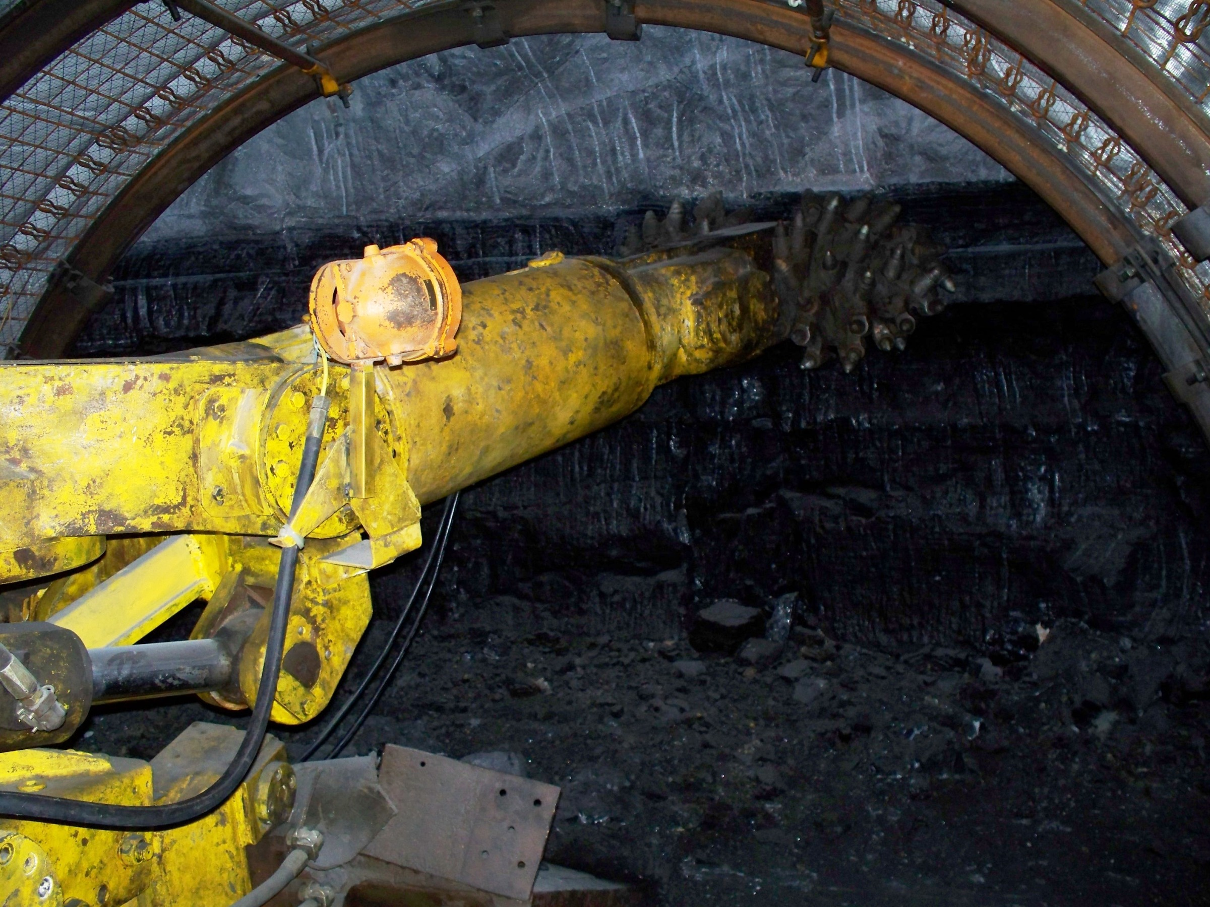 Teilschnittmaschine Alpine Miner AM50 in the Deutsches Museum in Munich